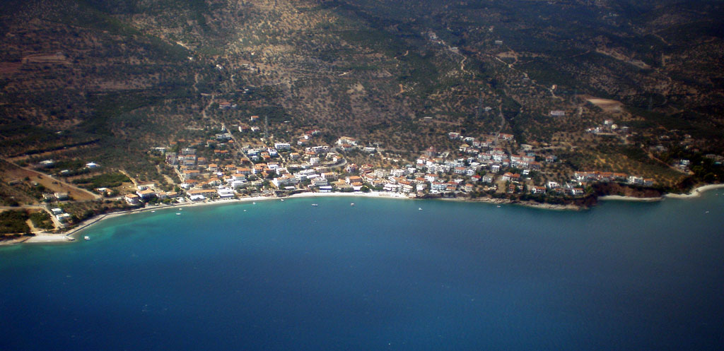 The village of Xiropigado in Arcadia from above.